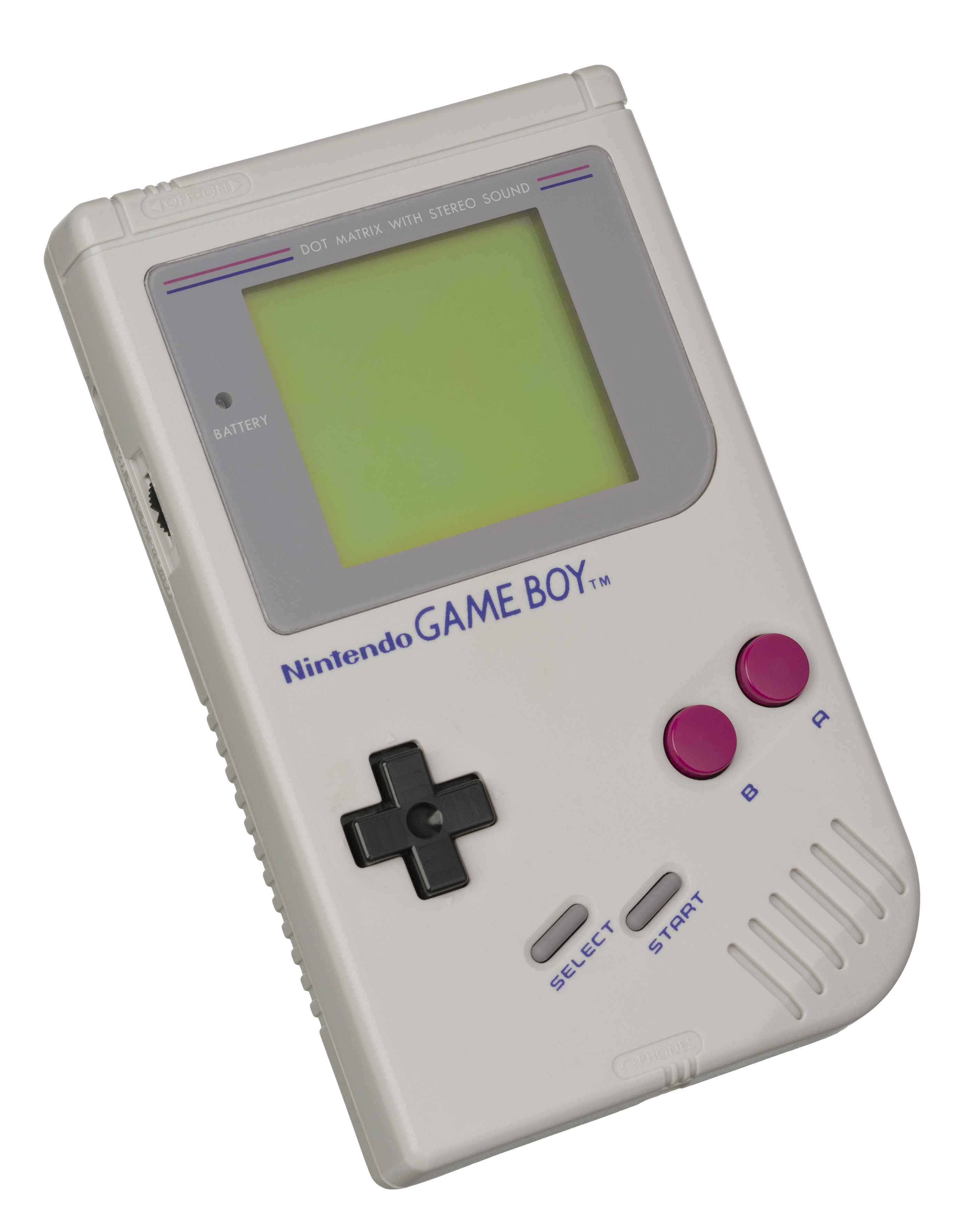 The Nintendo Game Boy, a handheld gaming console released in 1989. The relatively simple and monochrome Game Boy faced off against multiple handhelds and dominated the portable gaming market for almost a decade. This system has a 4.19 MHz CPU, a 4-shade LCD and ran off of 4 AA batteries. It was a very long-running system, only seeing a minor upgrade with the Game Boy Pocket in 1996, then later the Game Boy Color in 1998.